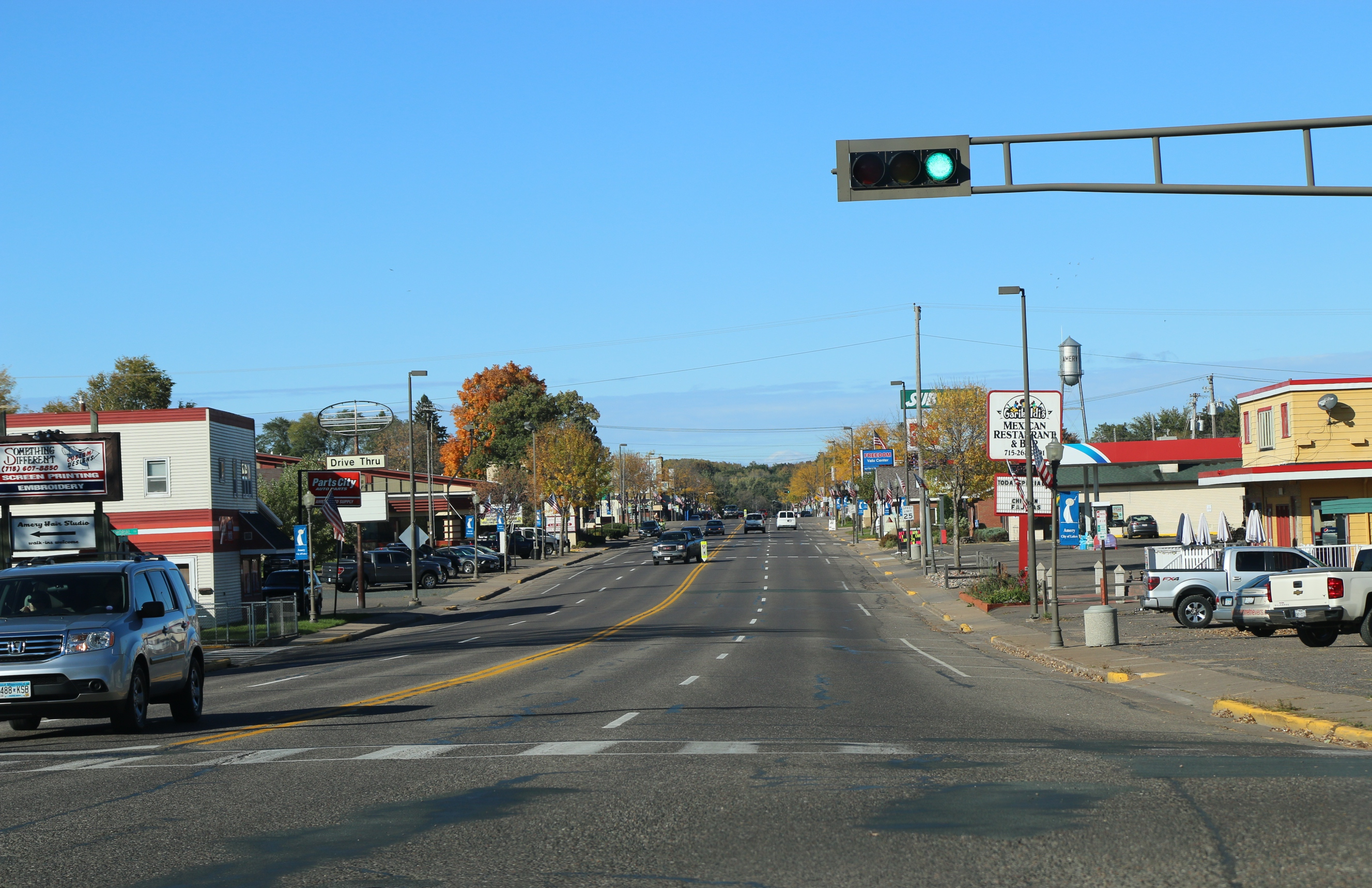 Downtown Amery, Wisconsin on WIS46